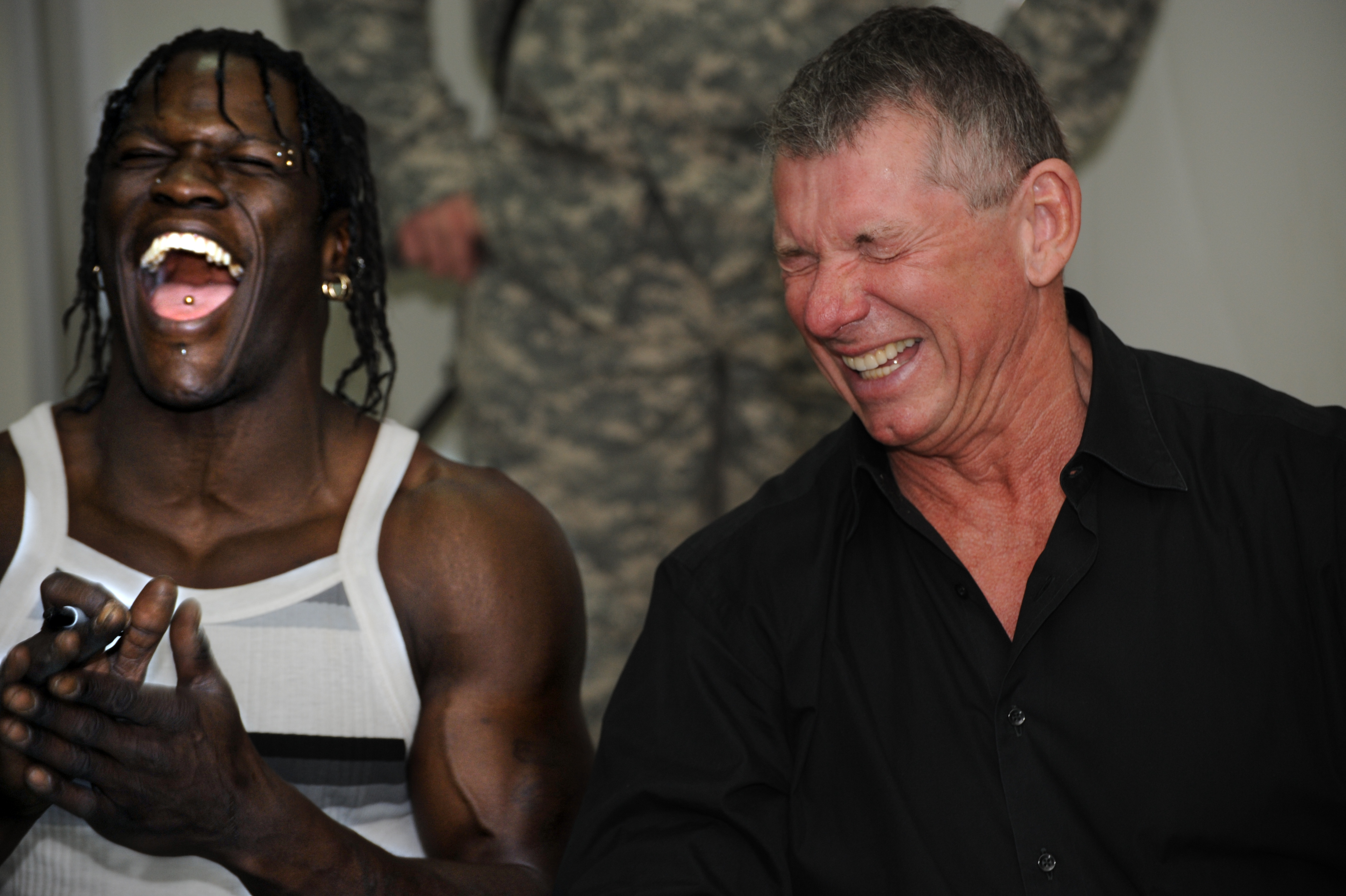 World Wrestling Entertainment (WWE) wrestler Ron Killings (left) also known as "R-Truth" and Vince McMahon (right) share a laugh at Forward Operating Base (FOB) Loyalty, Beladiyat, eastern Baghdad, on Dec. 4, 2008. The WWE wrestlers stopped at FOB Loyalty to sign autographs and pose with Soldiers for photographs. (U.S. Army photo by Staff Sgt. James Selesnick/Released).